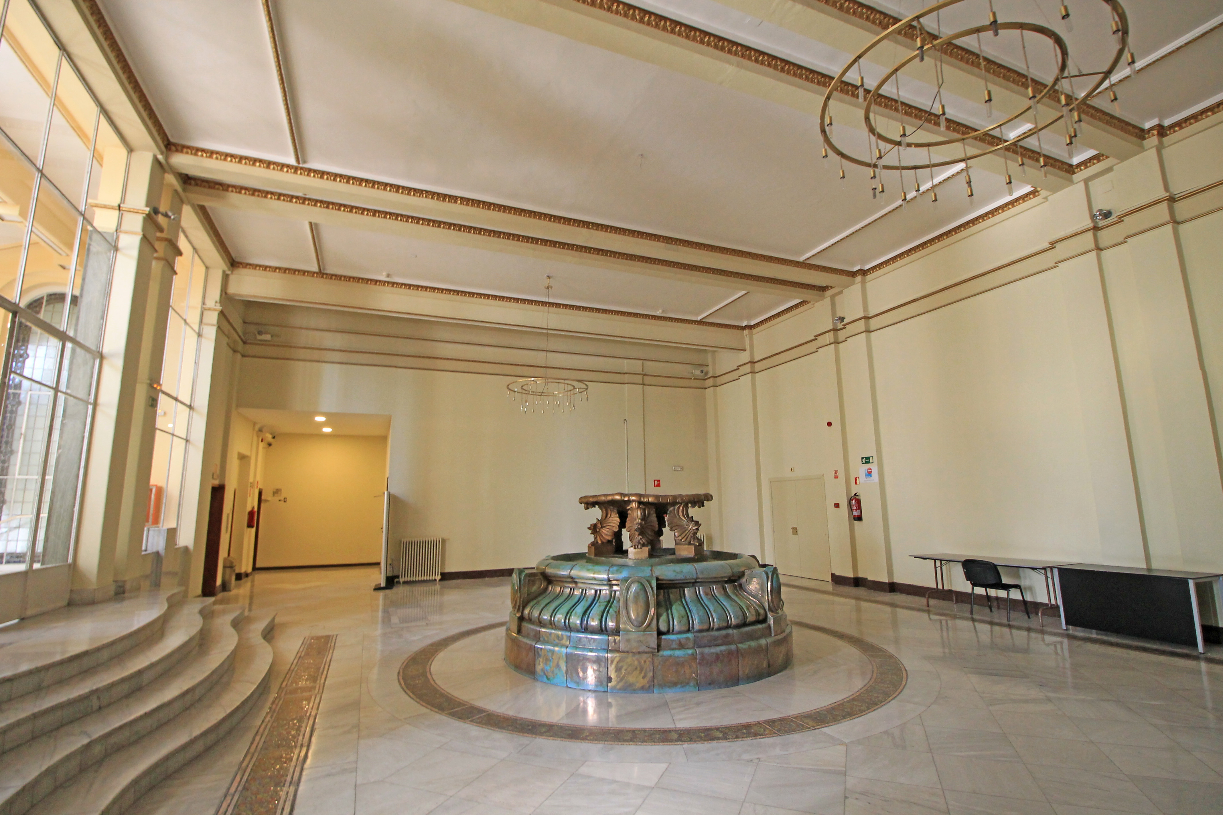 The room called Fuentecilla at the 4th floor of Círculo de Bellas Artes in Madrid (Spain).